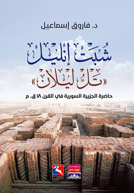 Tell Leilan - Syria - Book in arabic by Farouk Ismail